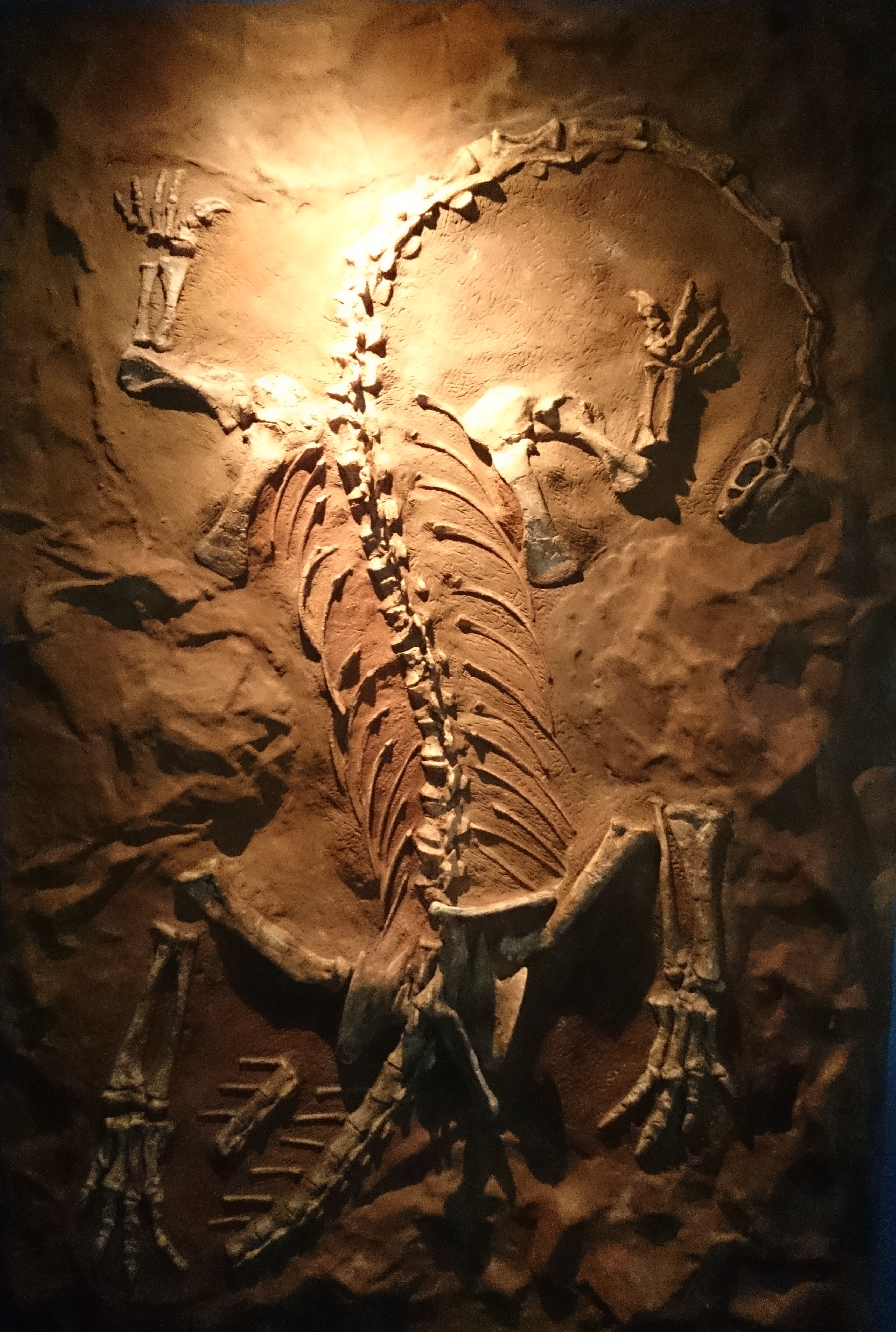 Syntarsus Fossil